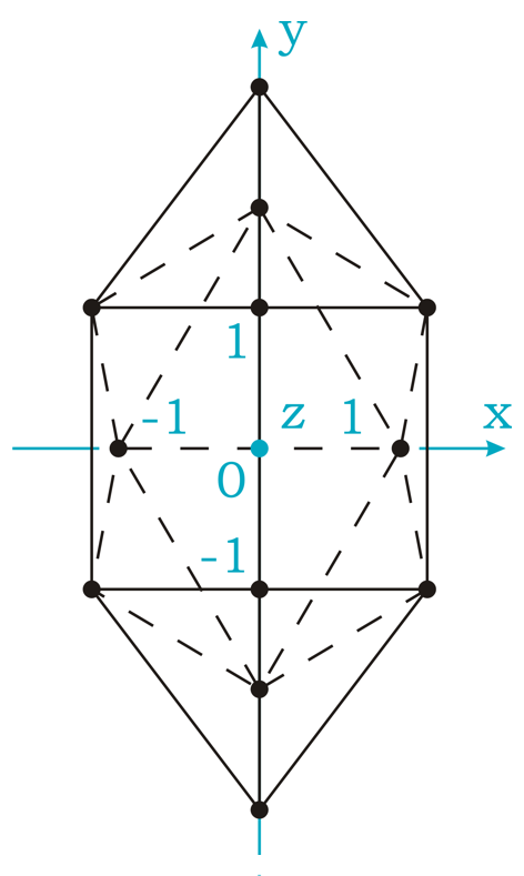 Sphenomegacorona in Cartesian coordinate system: top view (xOy projection)